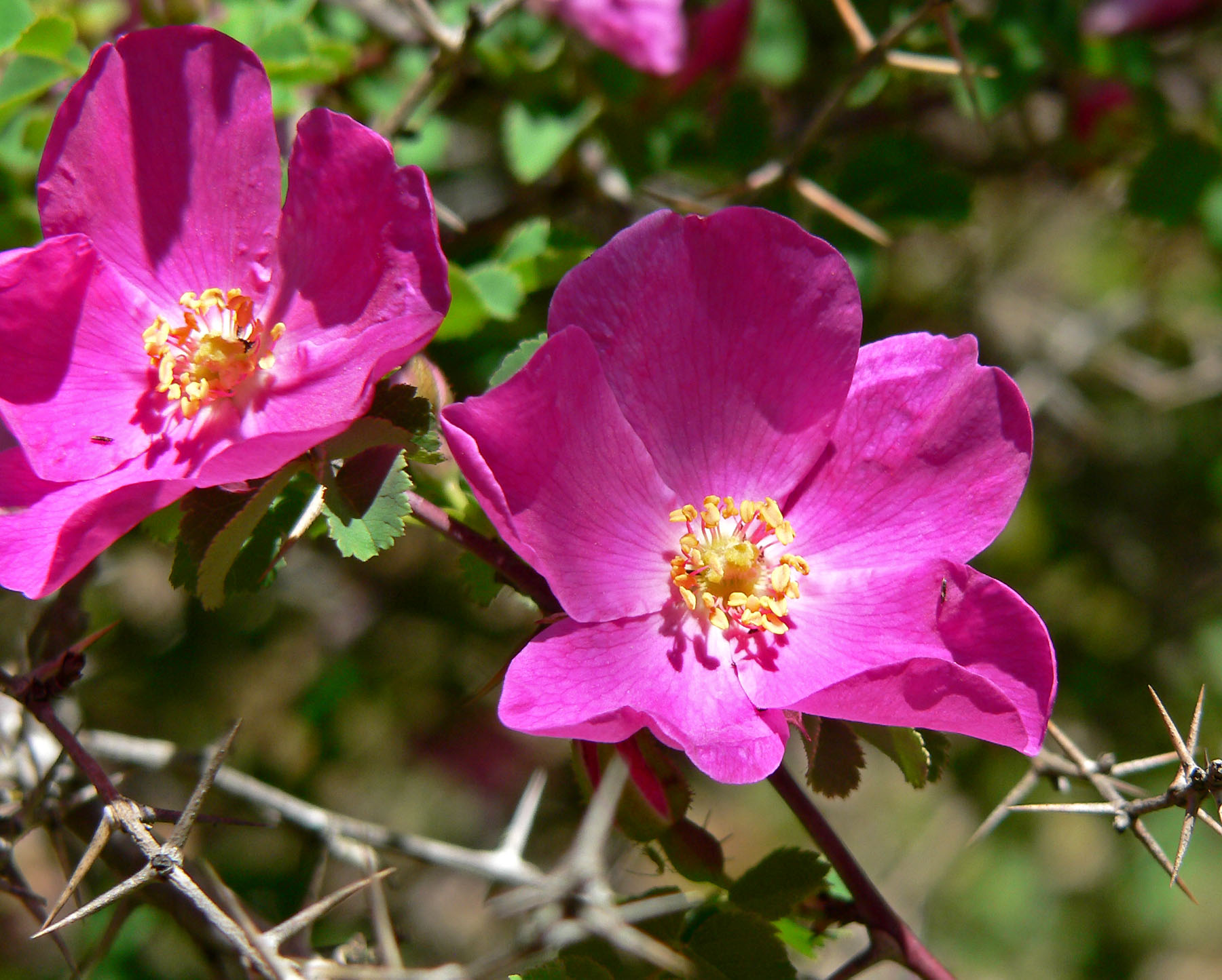 Rosa willmottiae at the University of California Botanical Garden, Berkeley, California